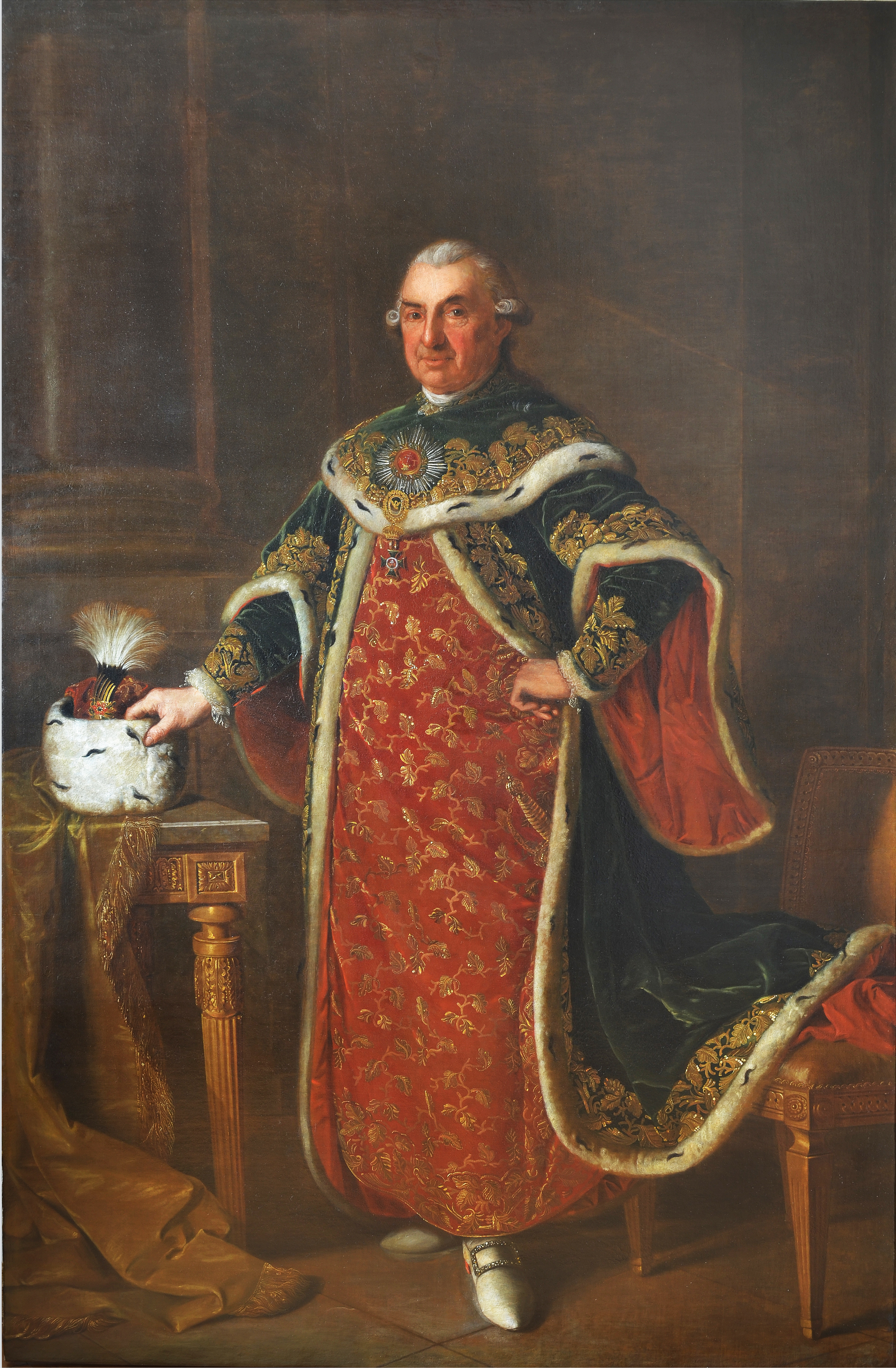 in the habit of a Knight Grand Cross of the Royal Order of Saint Stephen of Hungary.